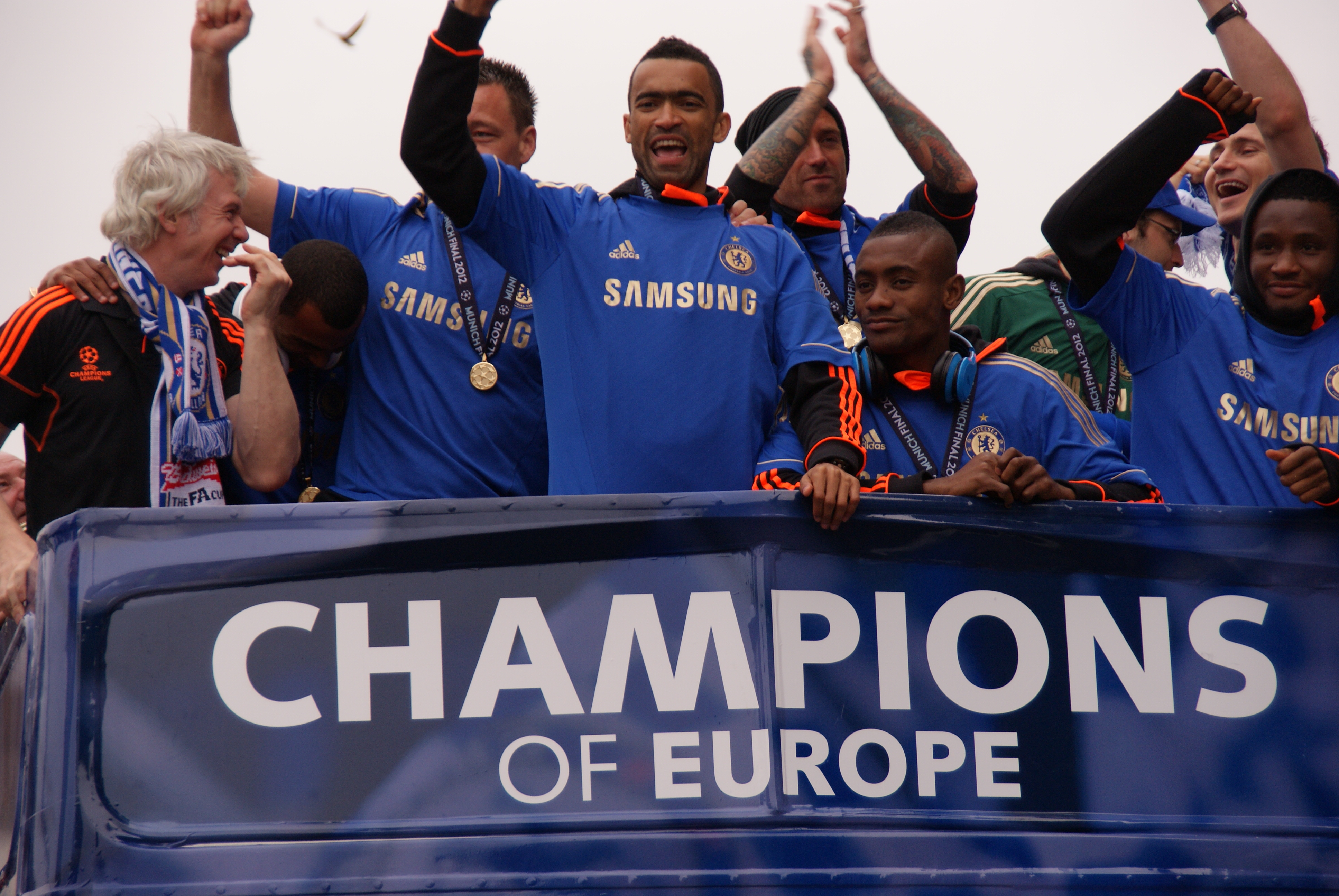 This photo was taken on Sunday 20th May 2012 during the Chelsea Football Club Parade following Chelsea's victory in the European Champions League Final.